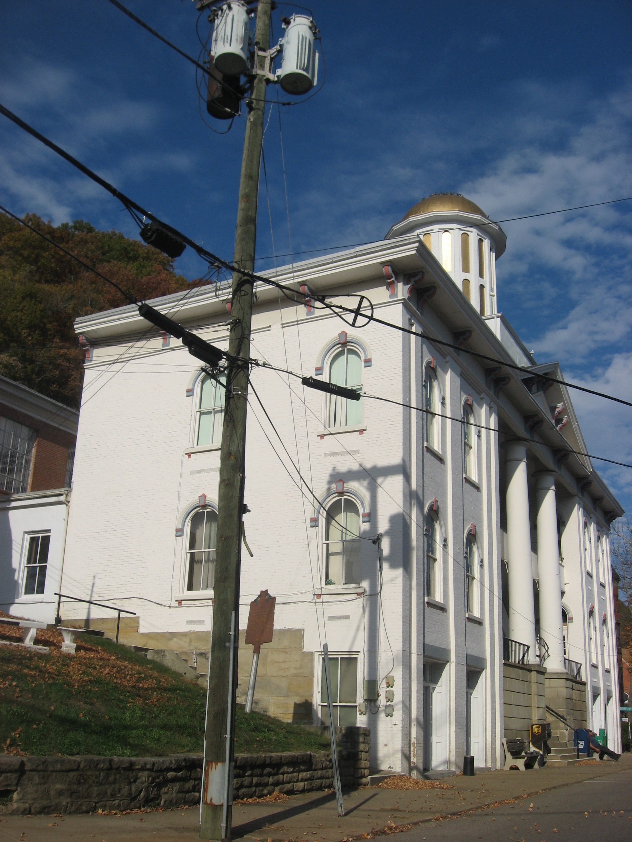 Front and western side of the Meigs County Courthouse, located at 100 E. Second Street in Pomeroy, Ohio, United States. Built in 1848, it is part of the Pomeroy Historic District, a historic district that is listed on the National Register of Historic Places.